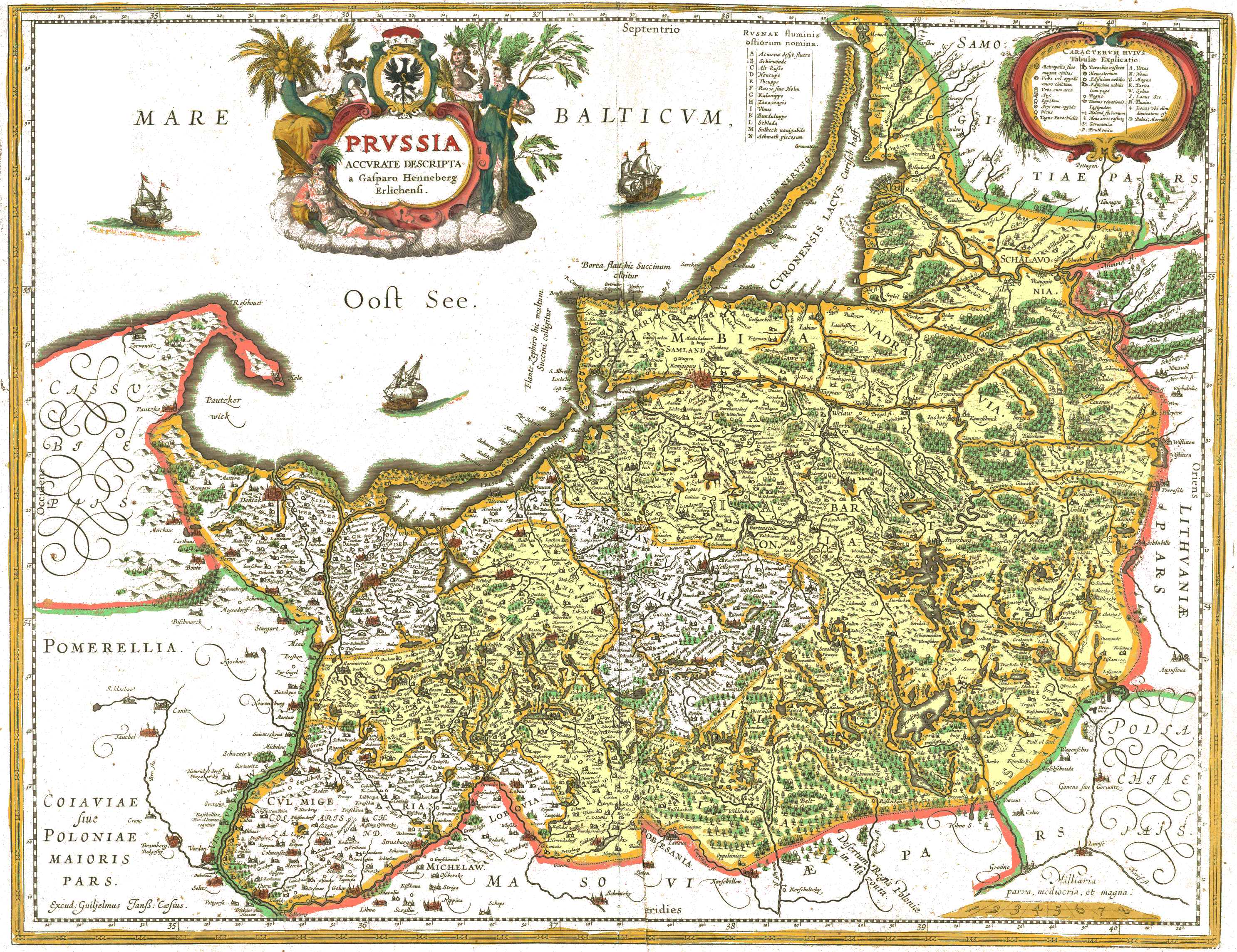 Map of Prussia before it gave its name to the state of Prussia, printed by Willem Blaeu in 1645. The original woodcuts were printed in Elbląg (at that time Elbing) in 1576 by Caspar Henneberg von Erlich (1529 - 1600).Blaeu's 1645 print has colored outlines but no area coloration. Interesting details: The two fractions of Prussia have the same coloration, though the western (royal Polish Prussia) fractions was in 1569 declared (and contested) as part of the Polish-Lithuanian Rzeczpospolita, while the eastern (ducal) part was only a vassal of the crown (king) of Poland. Both parts of Prussia retained by contracts one common border against neighboring countries. The neighboring territories, all of them parts of the Rzeczpospolita, are marked by different colors. Last not least Pomerella is not shown as a part of Prussia, but as a part of Greater Poland (which was one of the Polish provinces). A few names are noted bilingually, such as "Bramberg / Bedgosky" (Bromberg / Bydgoszcz), or as a compromise like "Dantzk".